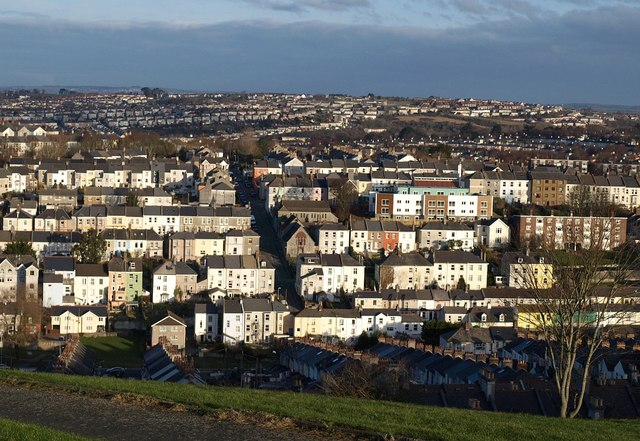 Keyham and Ford. Compare with 316691, taken looking more to the left, with some overlap. Like that image, this was taken from Mount Pleasant Recreation Ground.